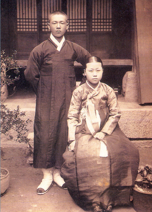 Chang Myon, South Korean Vicepresidents of Marryge